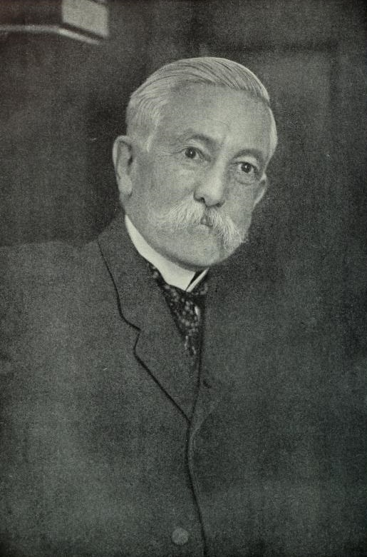 Picture of Robert Simpson Woodward